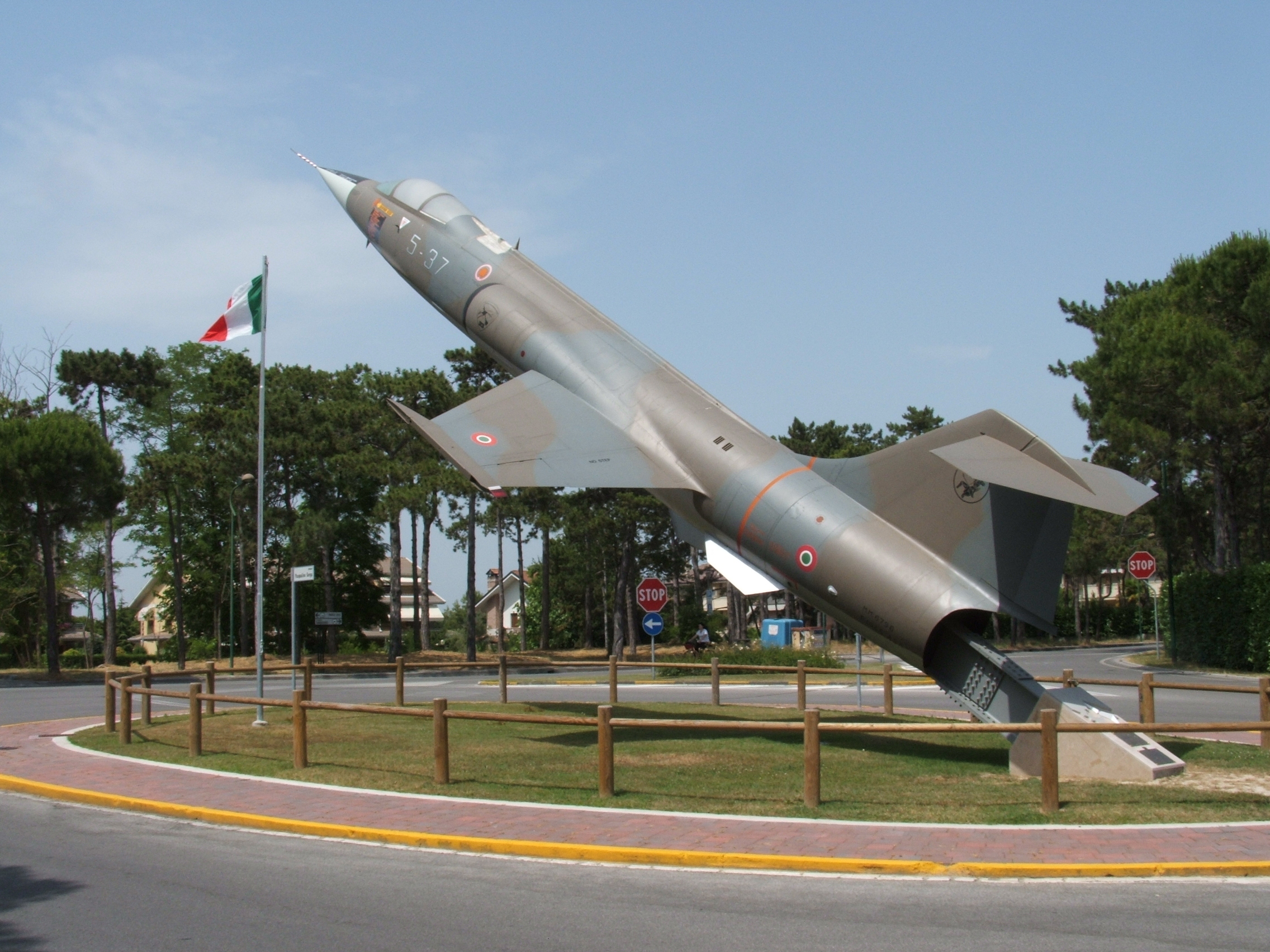 Lignano Sabbiadoro (UD), Italy - monument, (F-104 Starfighter)